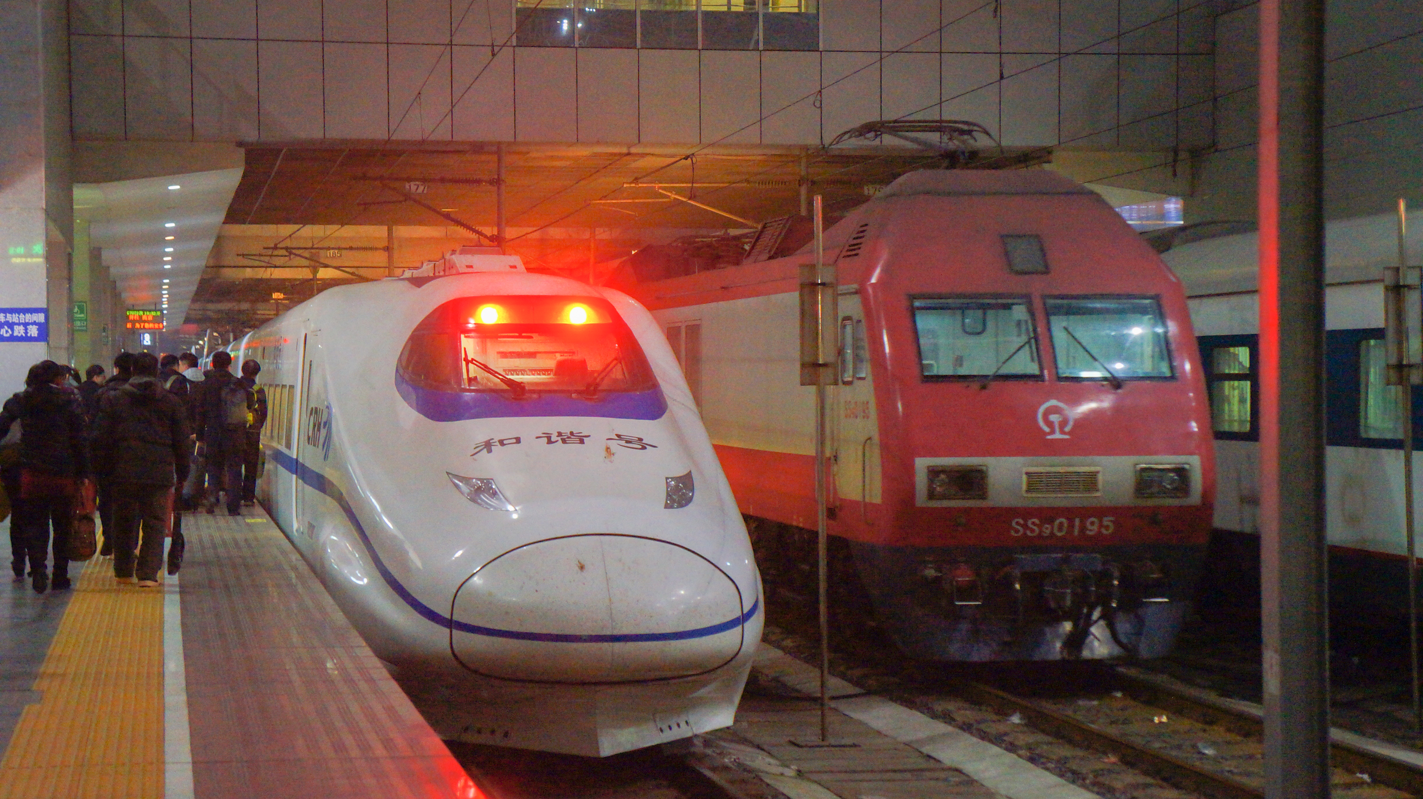 201602 G7072 and SS9G-0195 at Shanghai Station